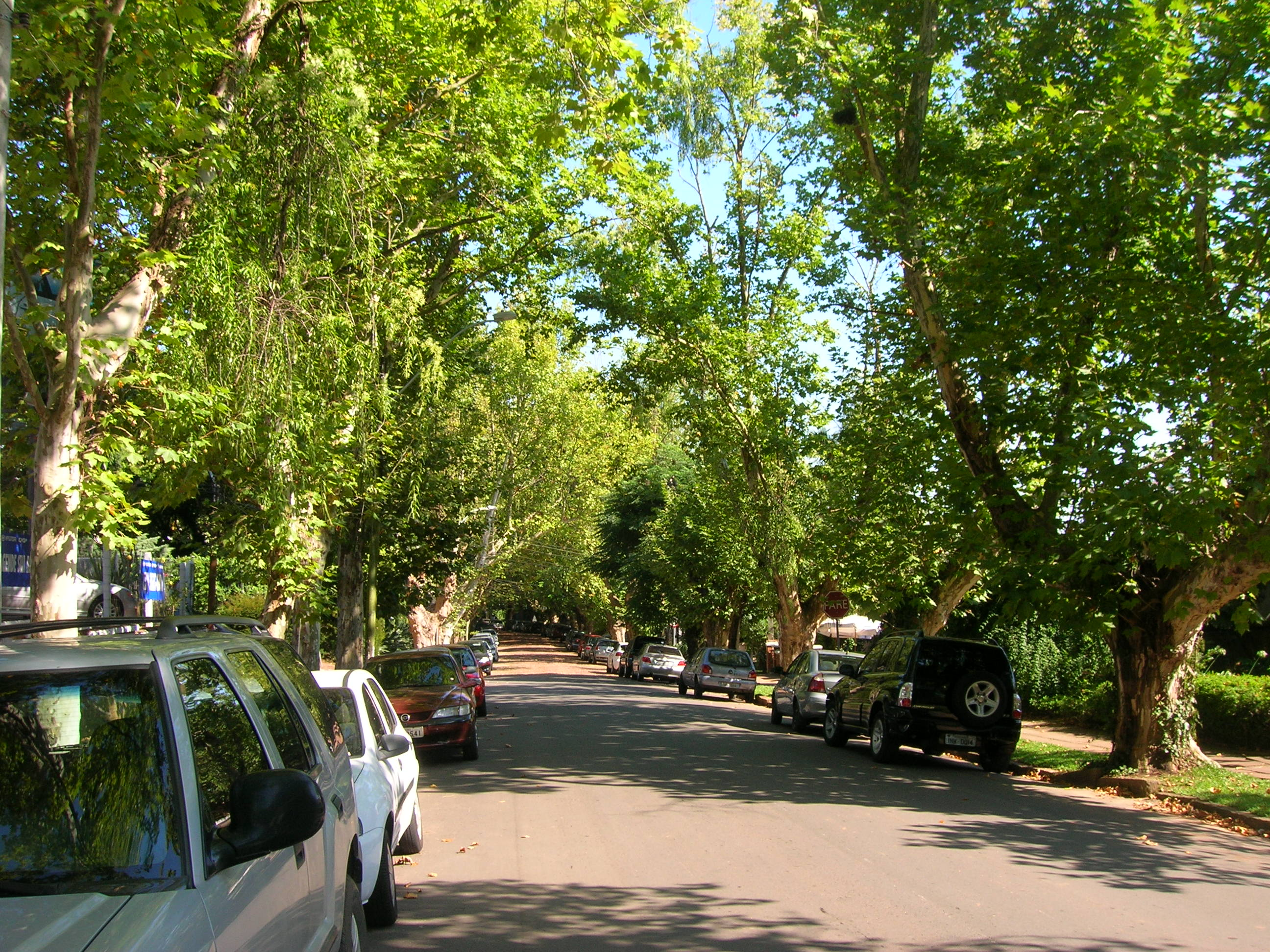 Raimundo Corrêa street, in Porto Alegre, Brazil.